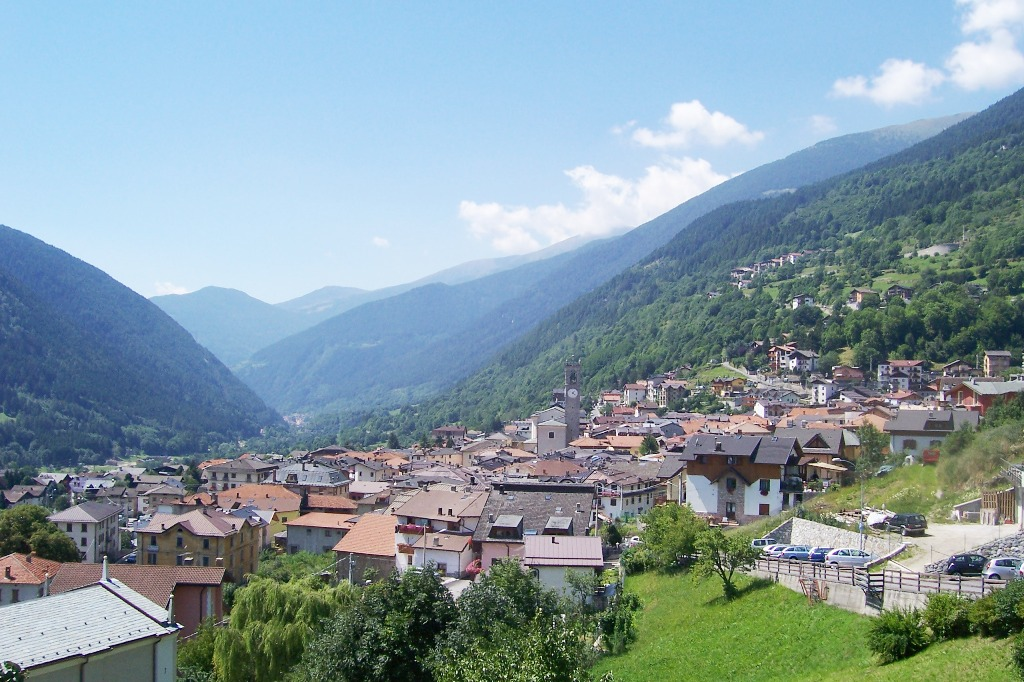 Panorama. Vezza d'Oglio, Val Camonica, Italy